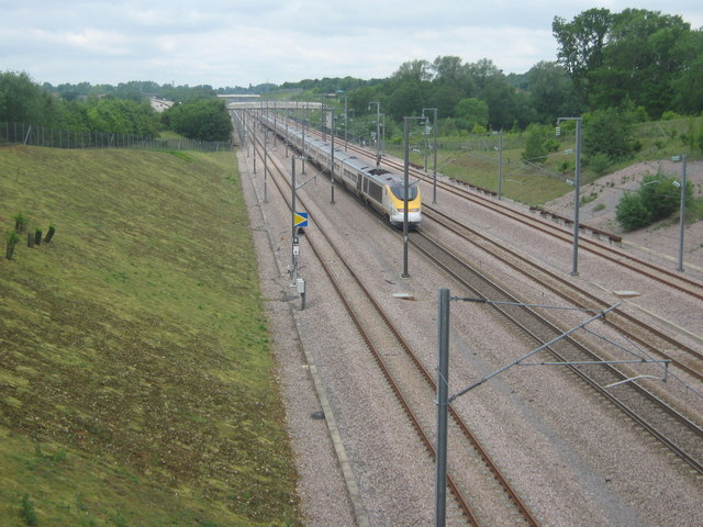 Eurostar Train heading to Ebbsfleet The high speed train has come from Folkestone and Ashford, then gone under Egerton Road bridge. It now speeds to Ebbsfleet and onto London. A footbridge is seen in the background, as well as the M20 Motorway.